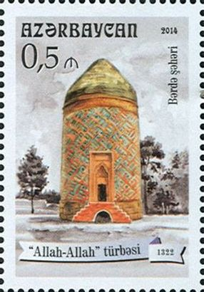 Stamps of Azerbaijan, 2014